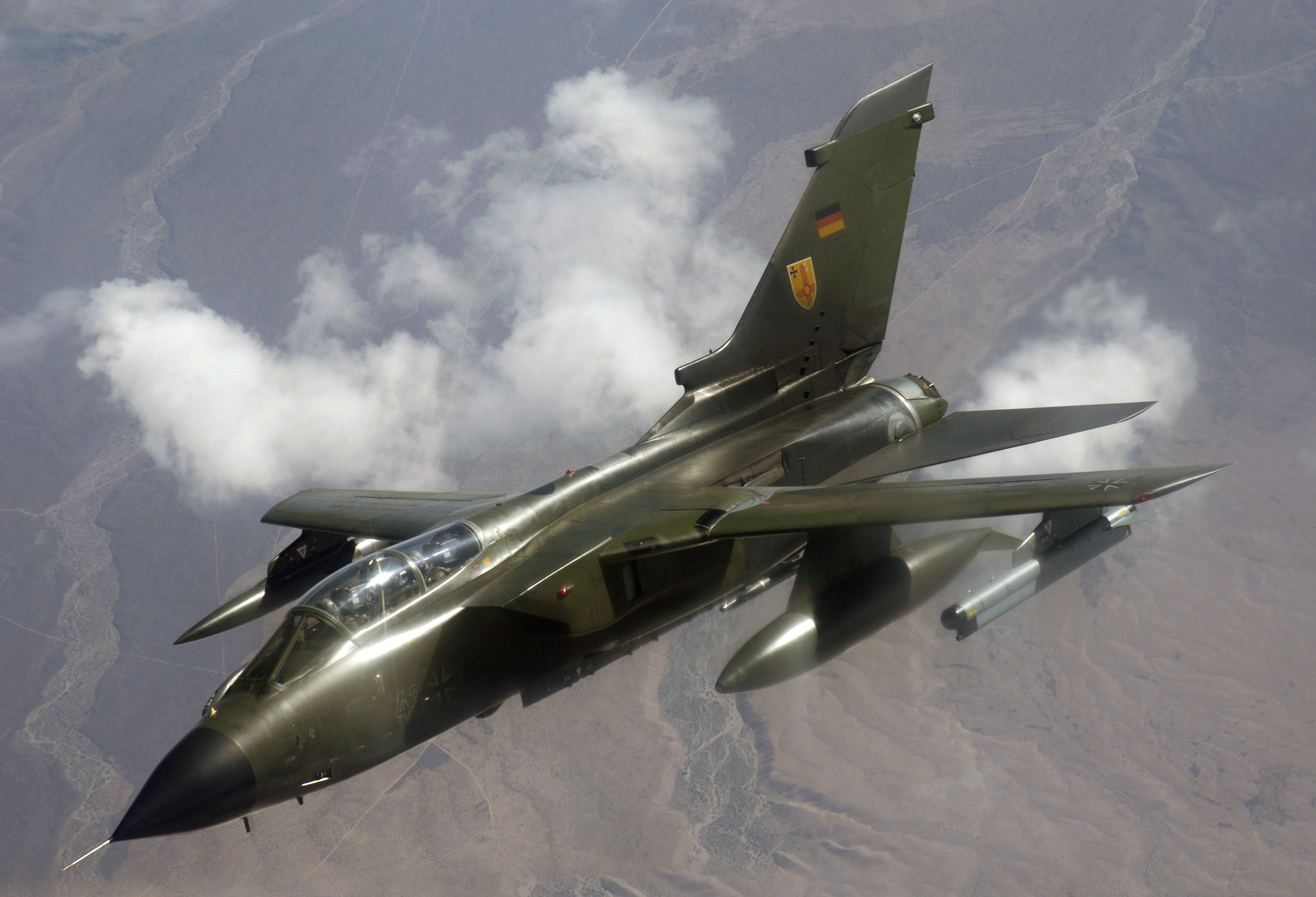 A Luftwaffe (German Air Force), Panavia Tornado IDS aircraft (s/n 43+13) from the "German Air Force Flying Training Center (GAF/FTC)" at Holloman AFB, New Mexico (USA), heads to the fight after refueling during Red Flag 07-3 at Nellis Air Force Base, Nevada (USA), on 31 August 2007. Red Flag tests aircrew's war-fighting skills in realistic combat situations.